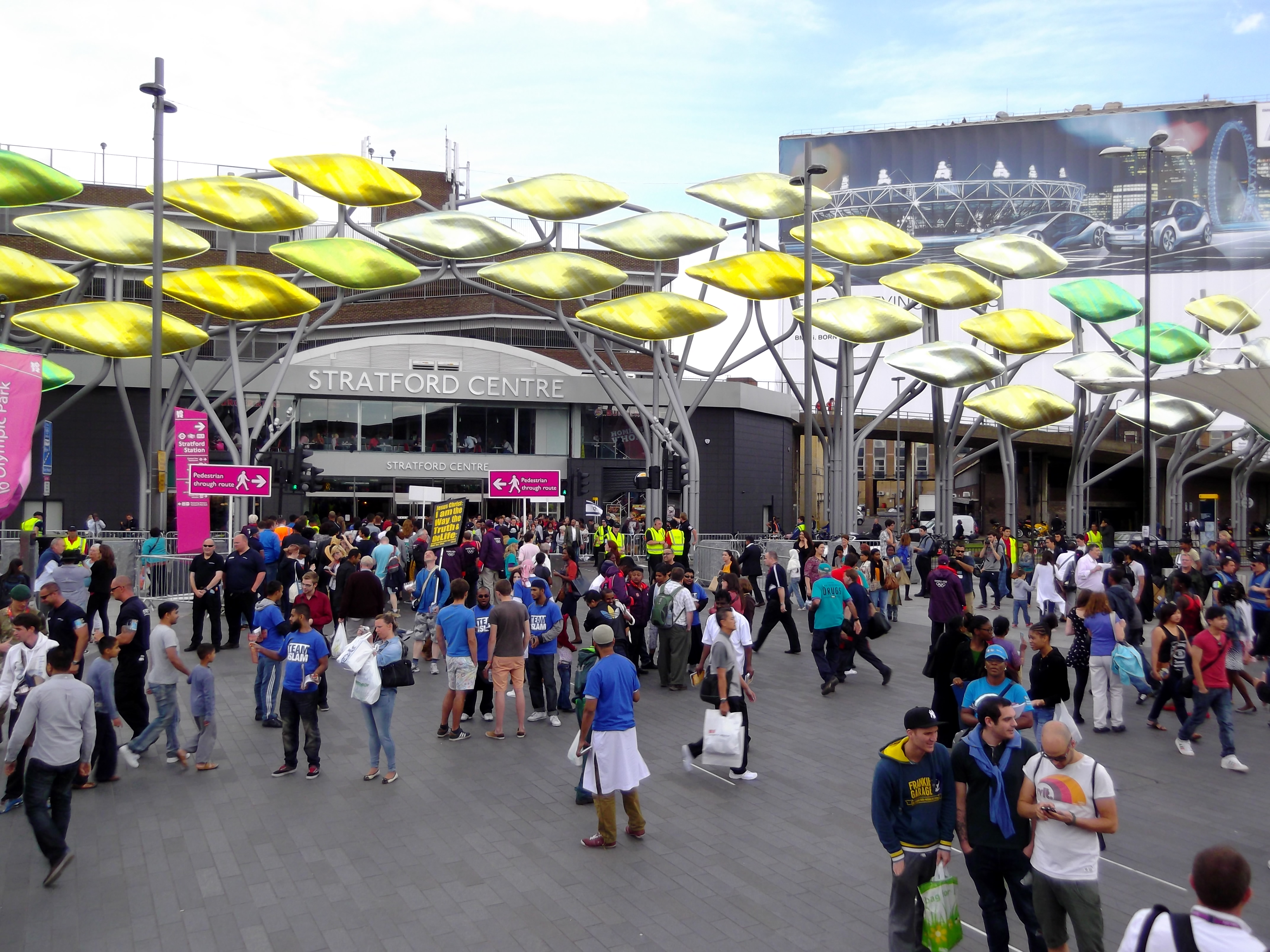 London 2012 Olympic Stratford Centre 219